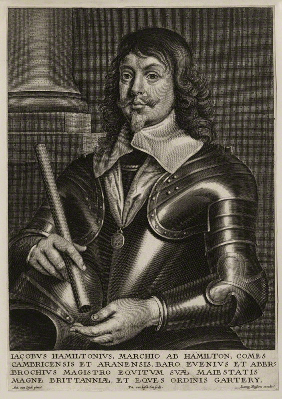 Portrait of James Hamilton, 1st Duke of Hamilton